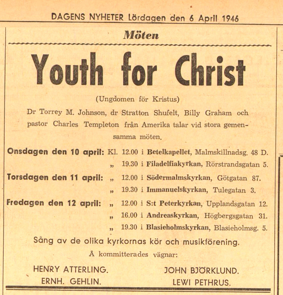 Advertisement for a three-day, seven-meeting campaign of "Youth for Christ" in different churches in Stockholm on April 10-12, 1946. Participating preachers are Dr Torrey M. Johnson, dr Stratton Shufelt, Billy Graham and pastor Charles Templeton.